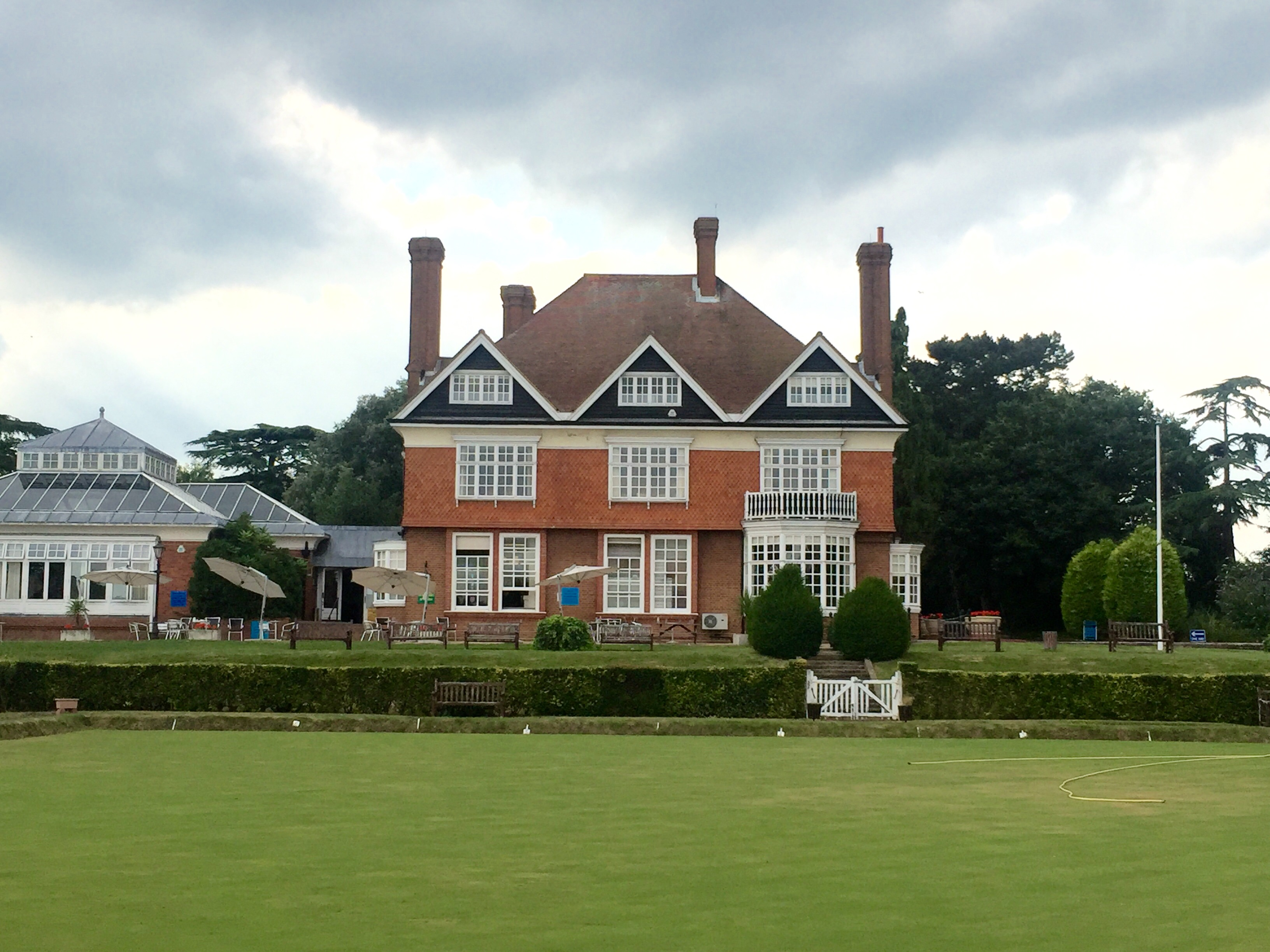 Chigwell Hall, built in 1876 to a design by by R. Norman Shaw. Now a sports club owned by the Metropolitan Police Service.